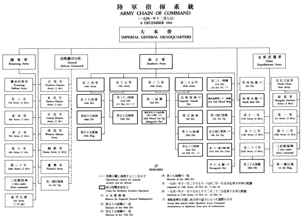 Chain of Command of Japanese Army, 8 December 1941